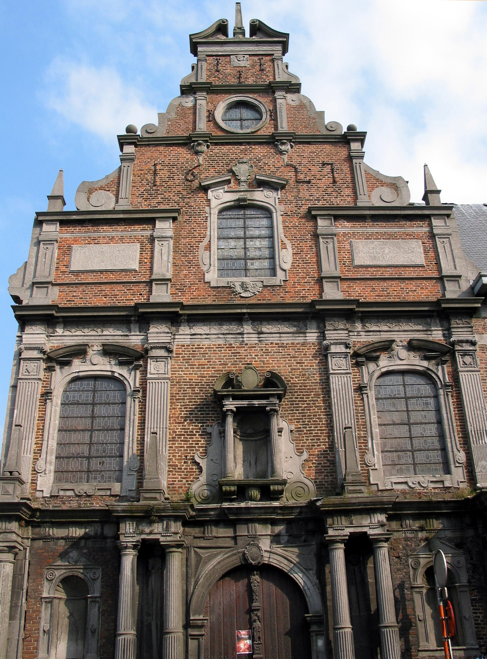 Braine-le-Comte (Belgium), façade of the the Dominican order convent church (XVIIth century).